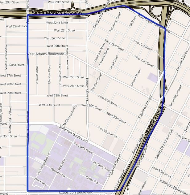 Outline map of the University Park neighborhood of South Los Angeles, California. As defined by the Los Angeles Times